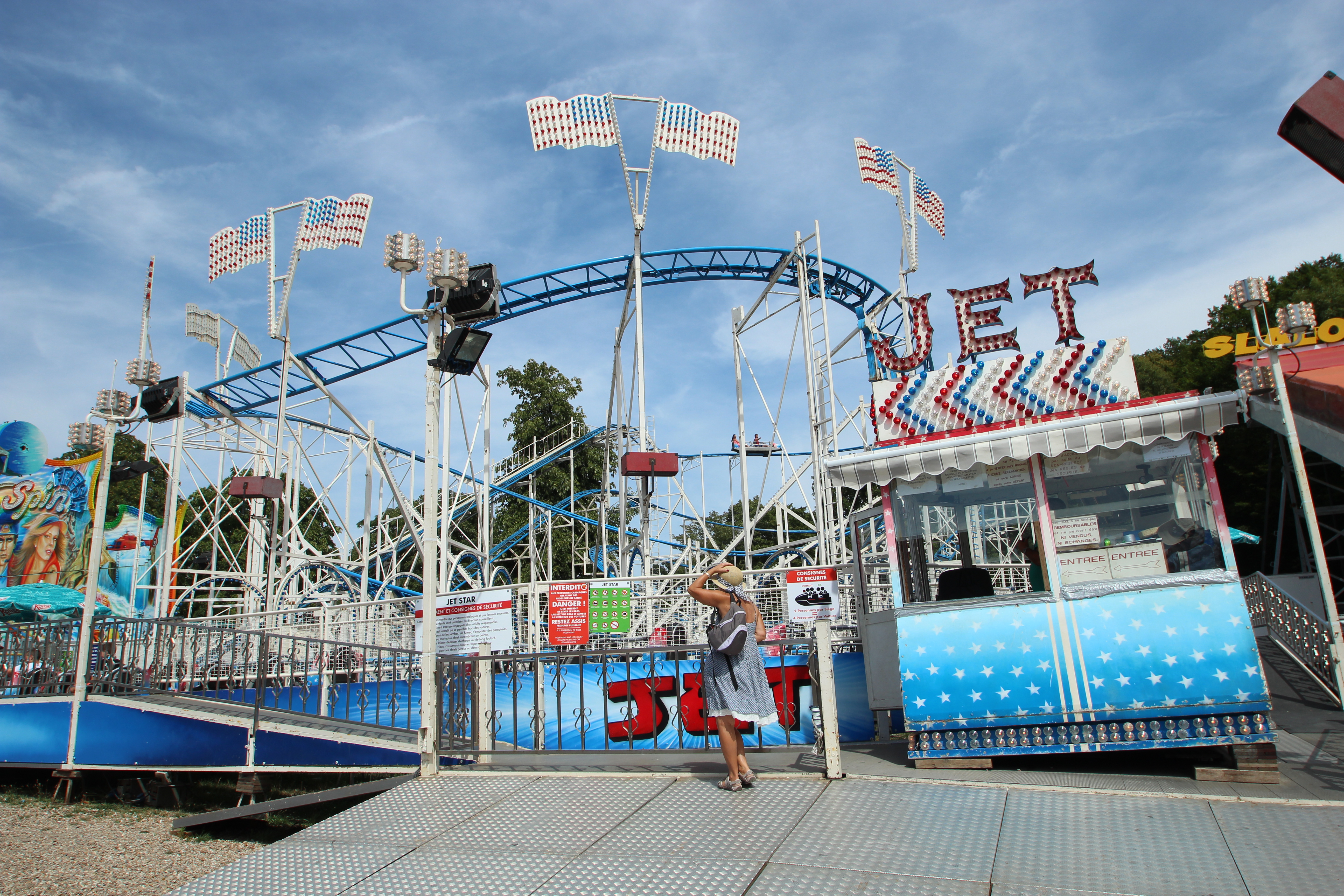 Fête des Loges fair in Saint-Germain-en-Laye, France. This image was uploaded as part of L'Été des villes 2015.